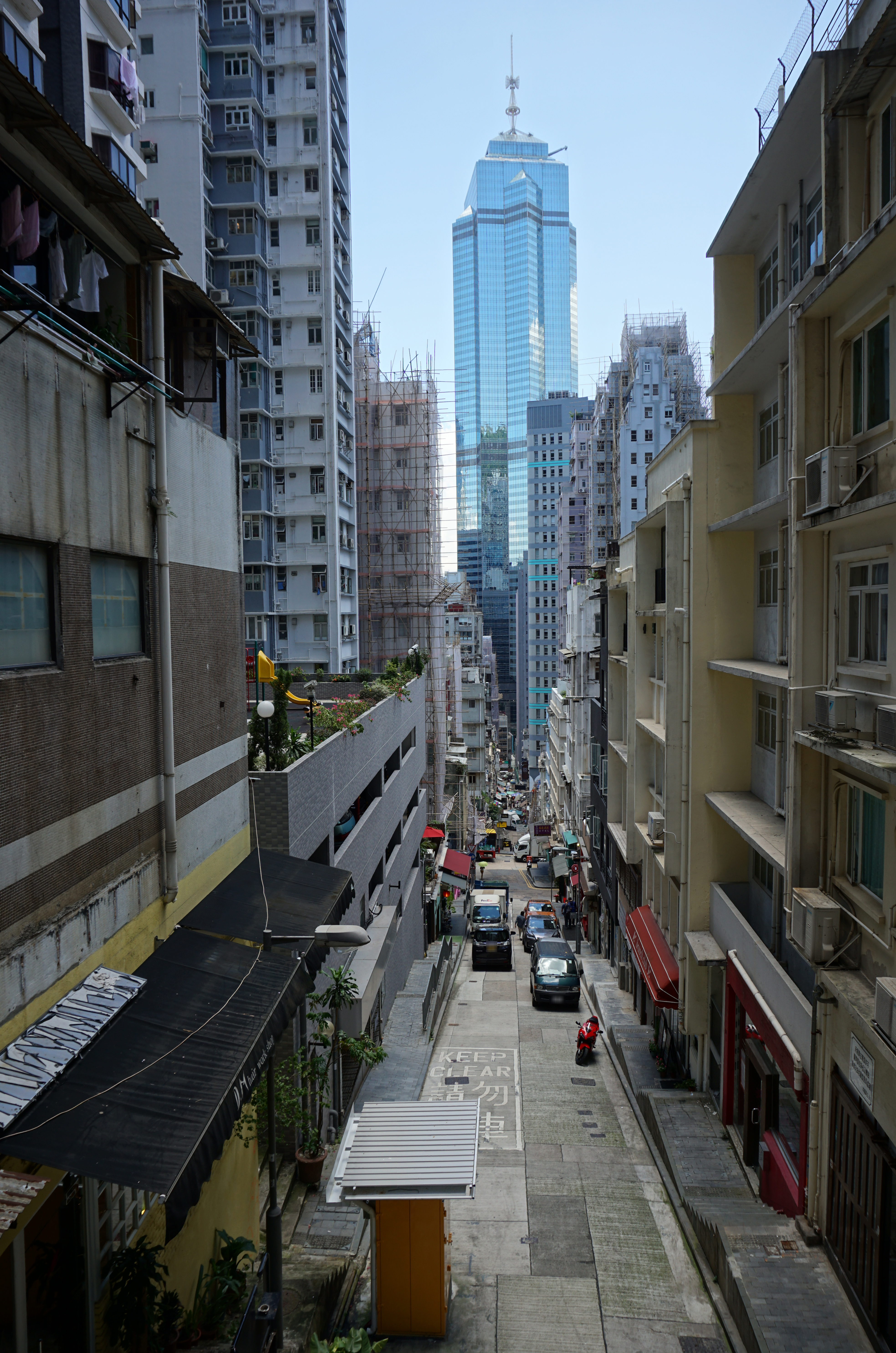 Peel Street in Central, Hong Kong.